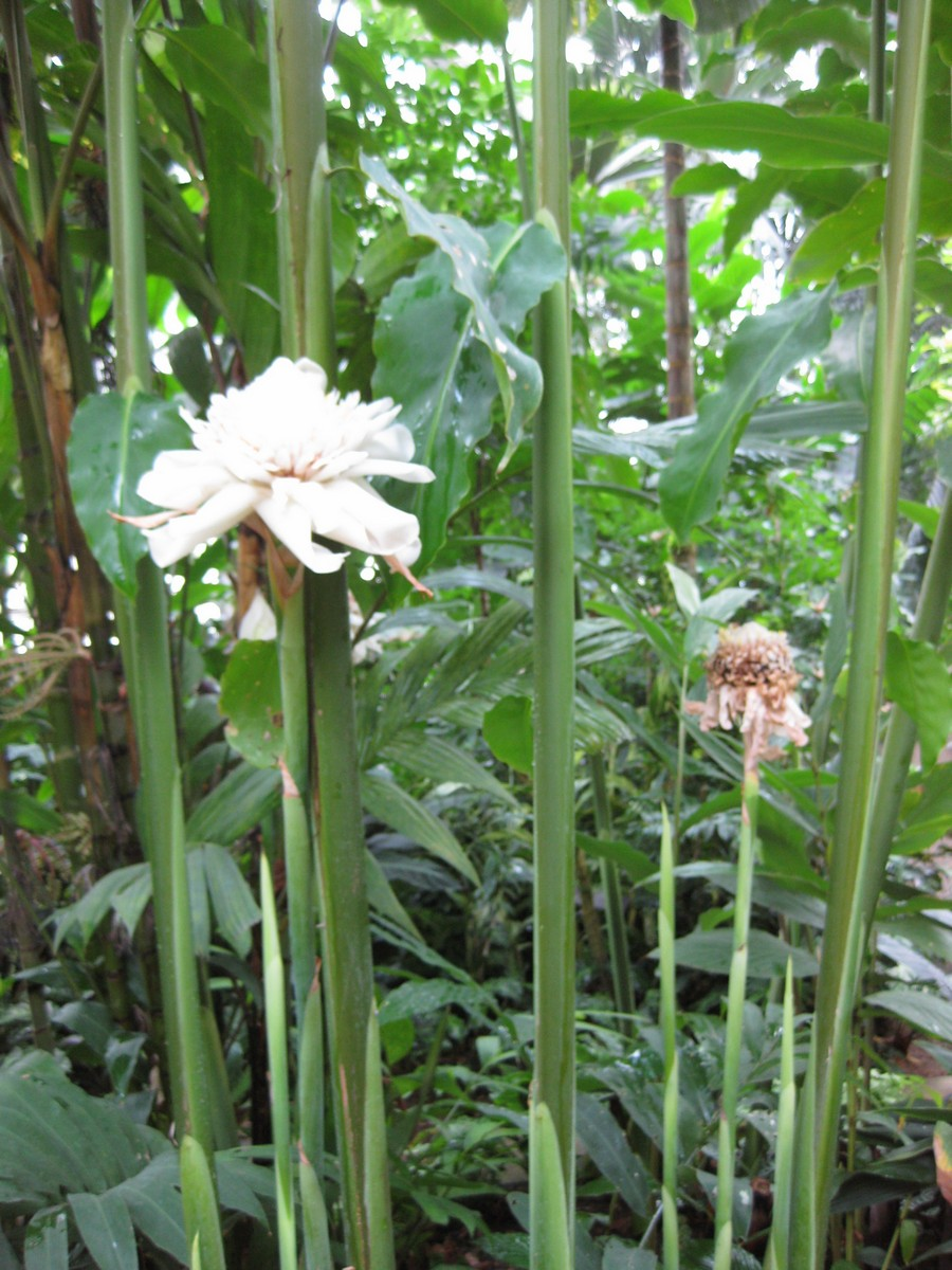 Photographed at the Queen Sirikit Botanic Garden (Chiang Mai Province, Thailand) in March